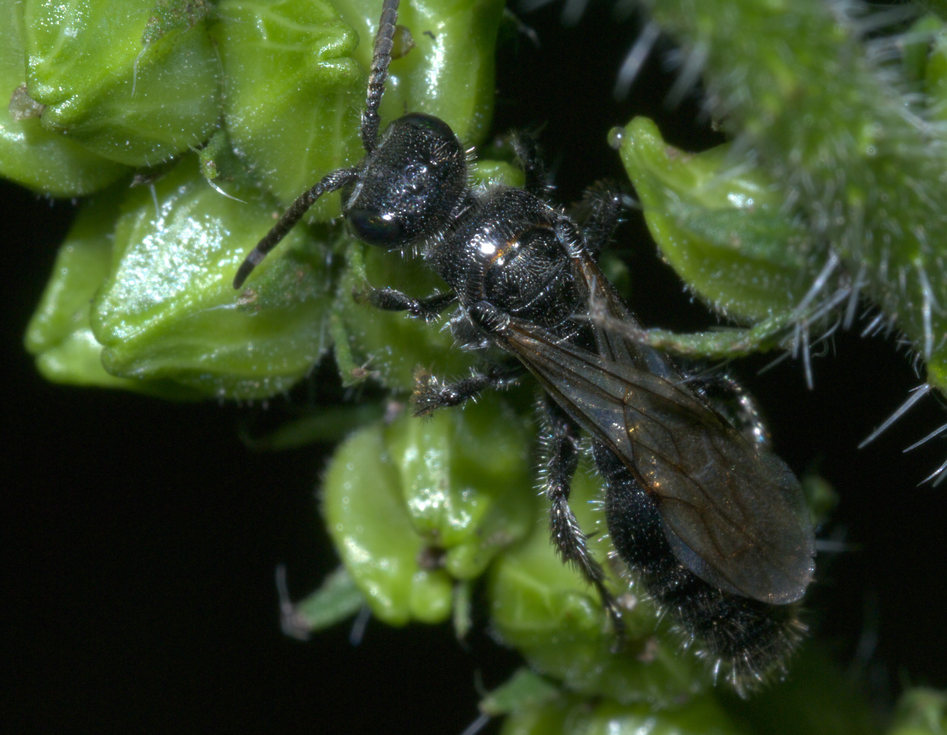 Tiphia, Family: Tiphiid Wasps, Size: 8.5 mm, ID Confidence: 98